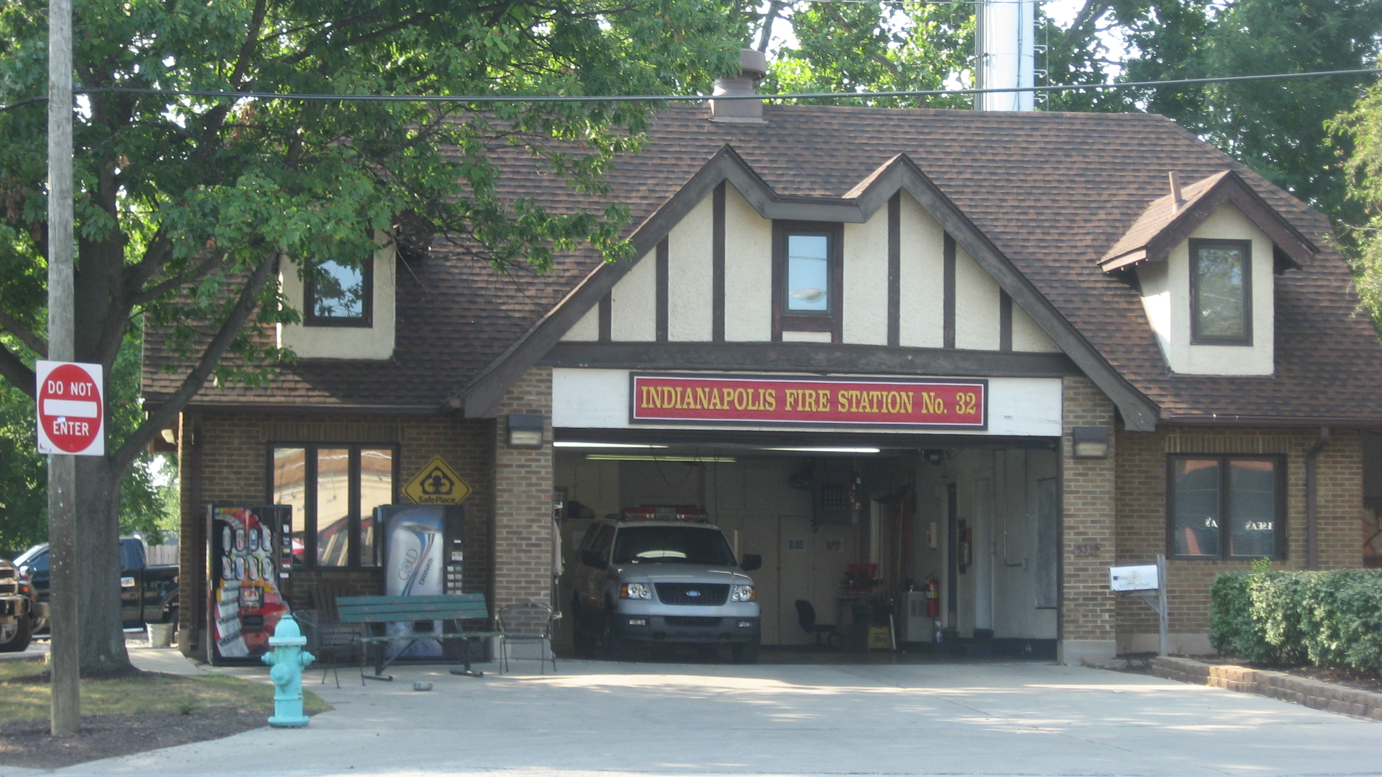 Front of the Broad Ripple Firehouse, located at 6330 Guilford Avenue in the Broad Ripple neighborhood of Indianapolis, Indiana, United States. Built in 1922, it is listed on the National Register of Historic Places.